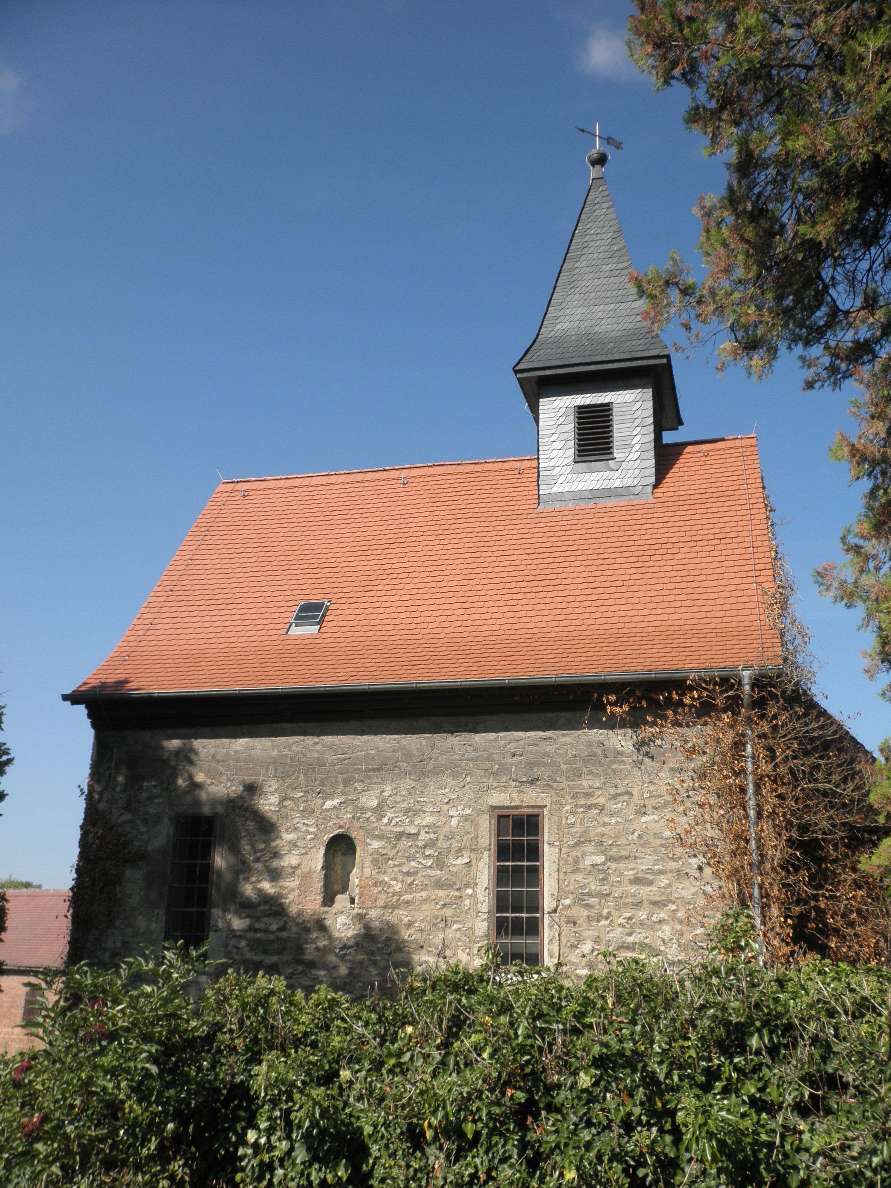 Church in Rodameuschel (Frauenprießnitz) in Thuringia